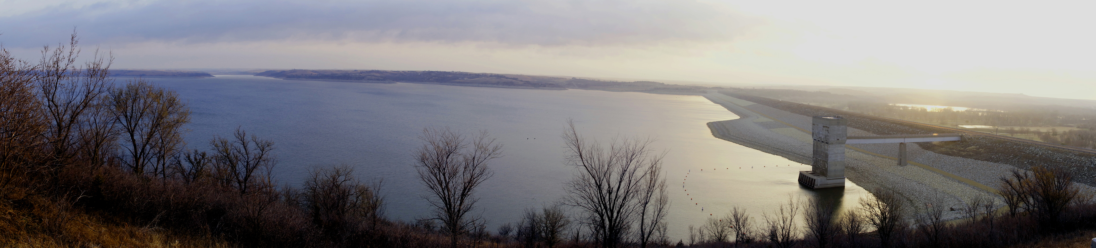 A panorama of Tuttle Creek Lake and dam near Manhattan, Kansas.